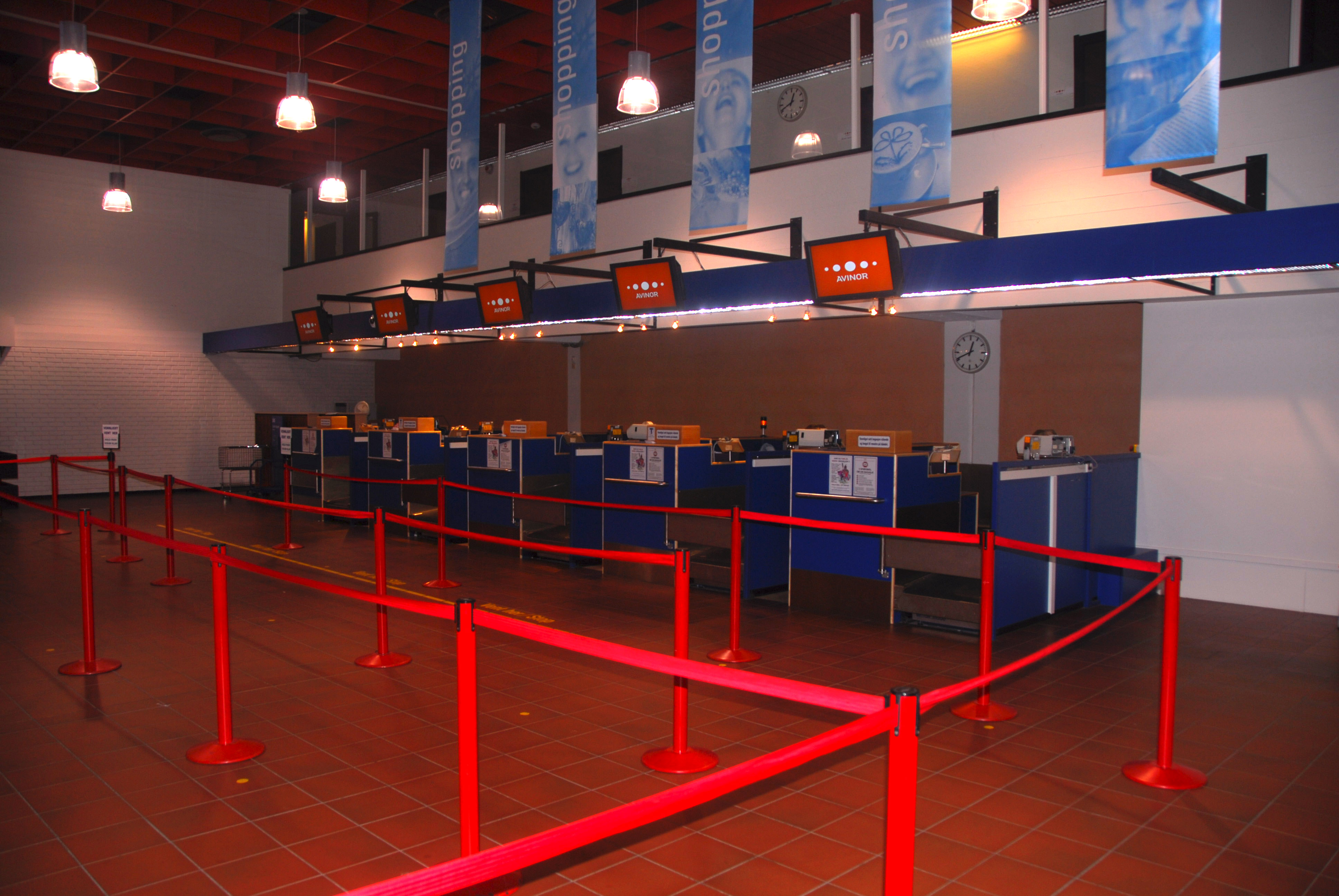 Chech-in at Terminal B of Trondheim Airport, Værnes in 2009, used for charter flights. This was the main terminal from 1982 to 1994.